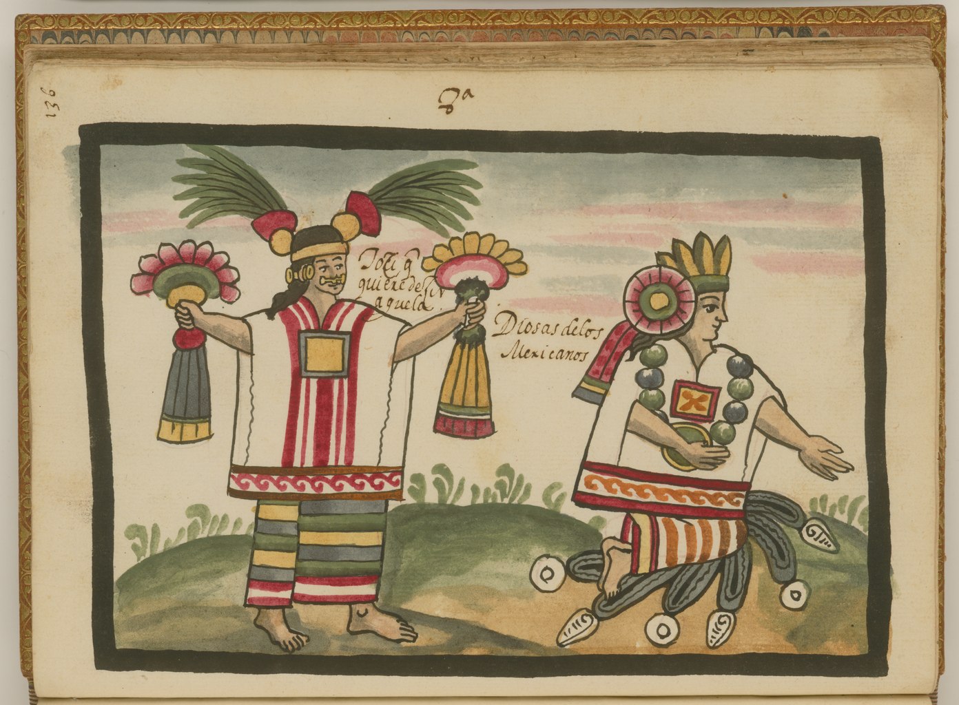 The Tovar Codex, attributed to the 16th-century Mexican Jesuit Juan de Tovar, contains detailed information about the rites and ceremonies of the Aztecs (also known as Mexica). The codex is illustrated with 51 full-page paintings in watercolor. Strongly influenced by pre-contact pictographic manuscripts, the paintings are of exceptional artistic quality. The manuscript is divided into three sections. The first section is a history of the travels of the Aztecs prior to the arrival of the Spanish. The second section, an illustrated history of the Aztecs, forms the main body of the manuscript. The third section contains the Tovar calendar. This illustration, from the second section, depicts two goddesses. Toci or Tonantzin, "our venerated mother," is shown with a bone through her nose, holding flower plumes and wearing quetzal plumes on her head. Xochiquetzal, "flower feather," is shown wearing a jade necklace, kneeling on a lake. Jacques Lafaye, the editor of the facsimile edition of the Tovar manuscript, claimed that the anonymous commentator has mislabeled the figure on the left as Toci or Tonantzin. Lafaye argued that the figure is Xochiquetzal, who was the goddess of artists, love, earth, pregnant women, and the moon, and who is sometimes mentioned as being married to Tlaloc, the god of rain. Lafaye identified the figure on the right as Chalchiuhtlicue, the goddess of lakes and streams, and who was also said to be married to Tlaloc. Lafaye based his argument on the fact that another important manuscript, the Codex Durán, contains an illustration of Xochiquetzal on the left and Chalchiuhtlicue on the right. Aztec gods; Aztecs; Codex; Indians of Mexico; Indigenous peoples; Mesoamerica; Tovar Codex